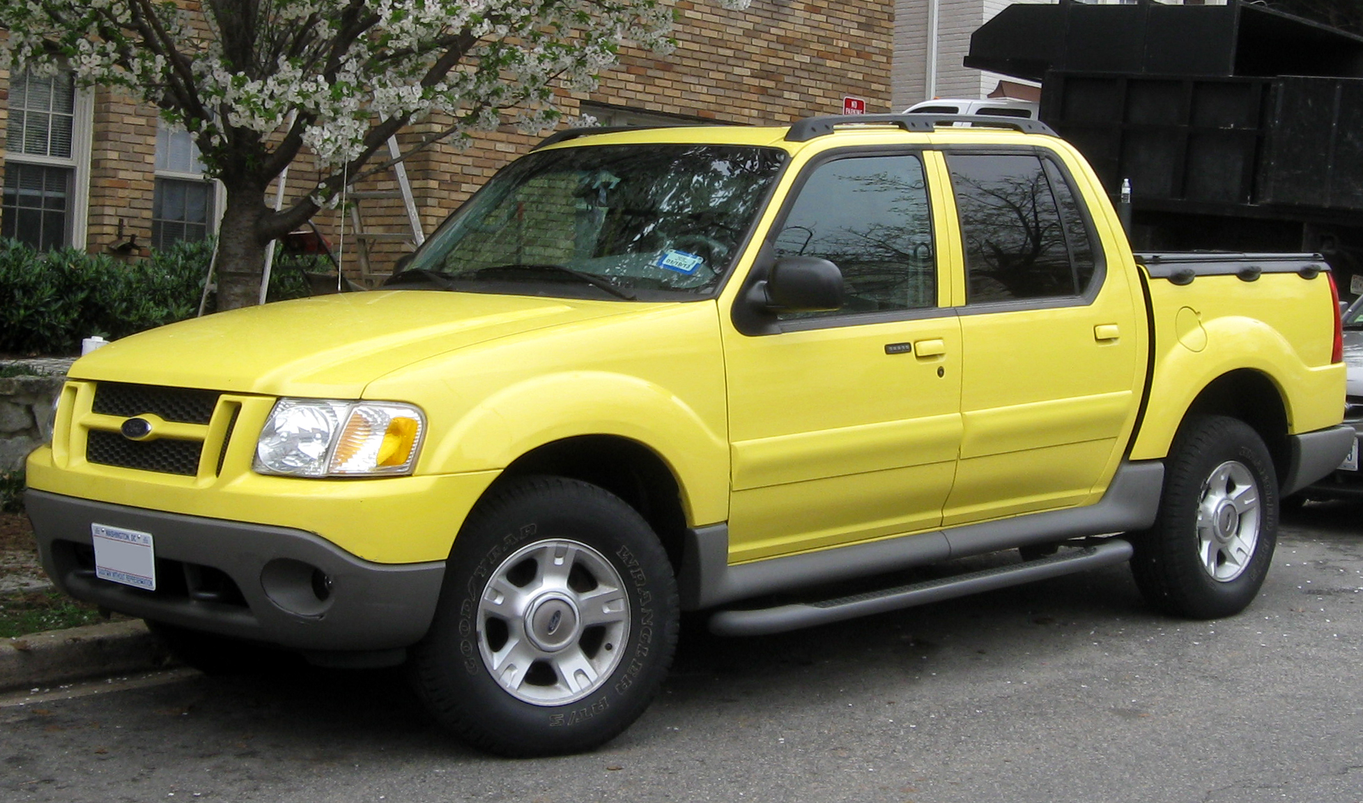 Ford Explorer Sport Trac photographed in Washington, D.C., USA.